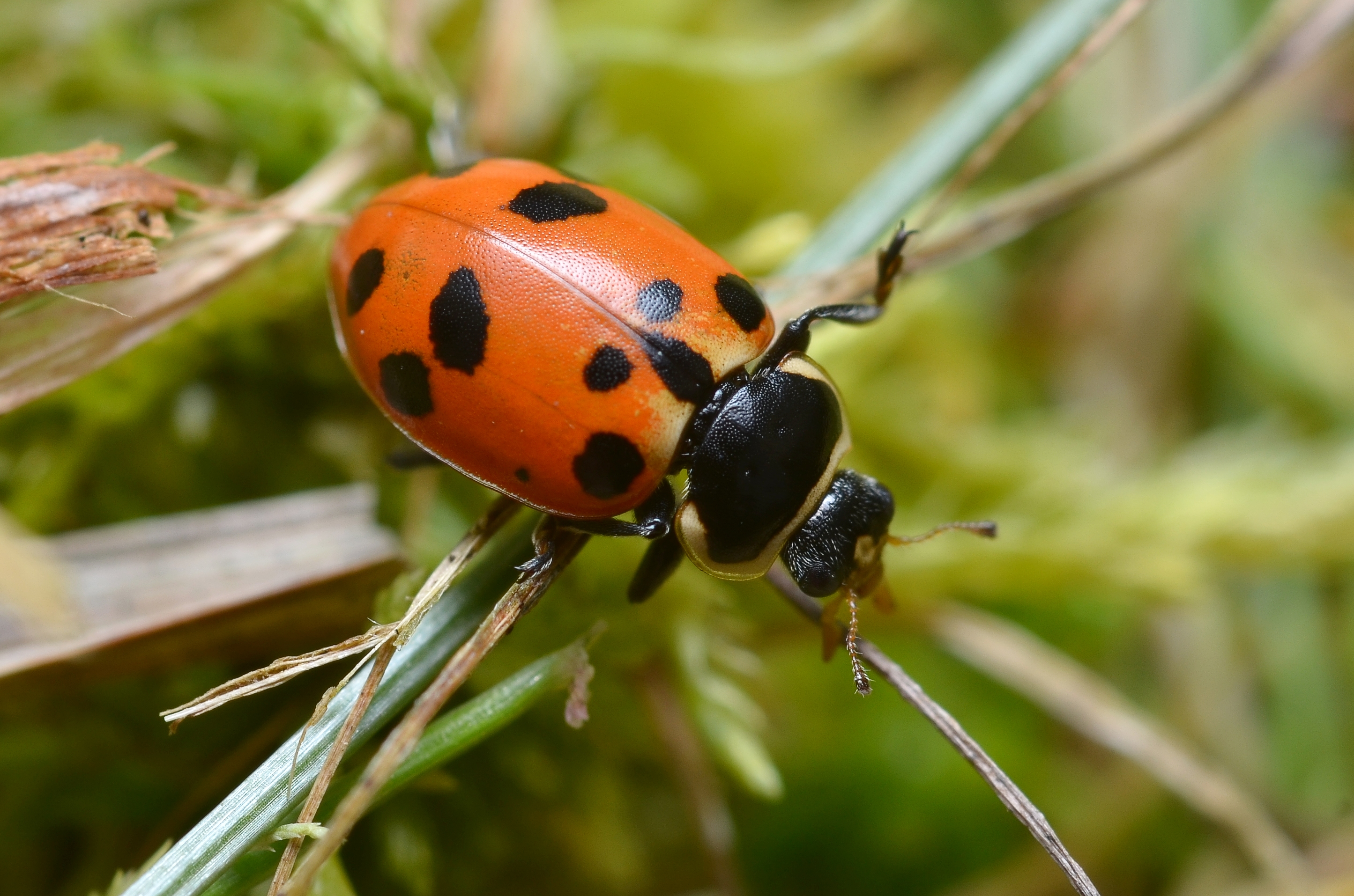 Hippodamia septemmaculata, a very rare boreo-montane ladybird species living only in peat bogs.